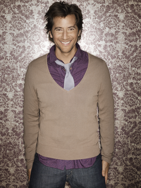 Photograph of actor Henry Ian Cusick